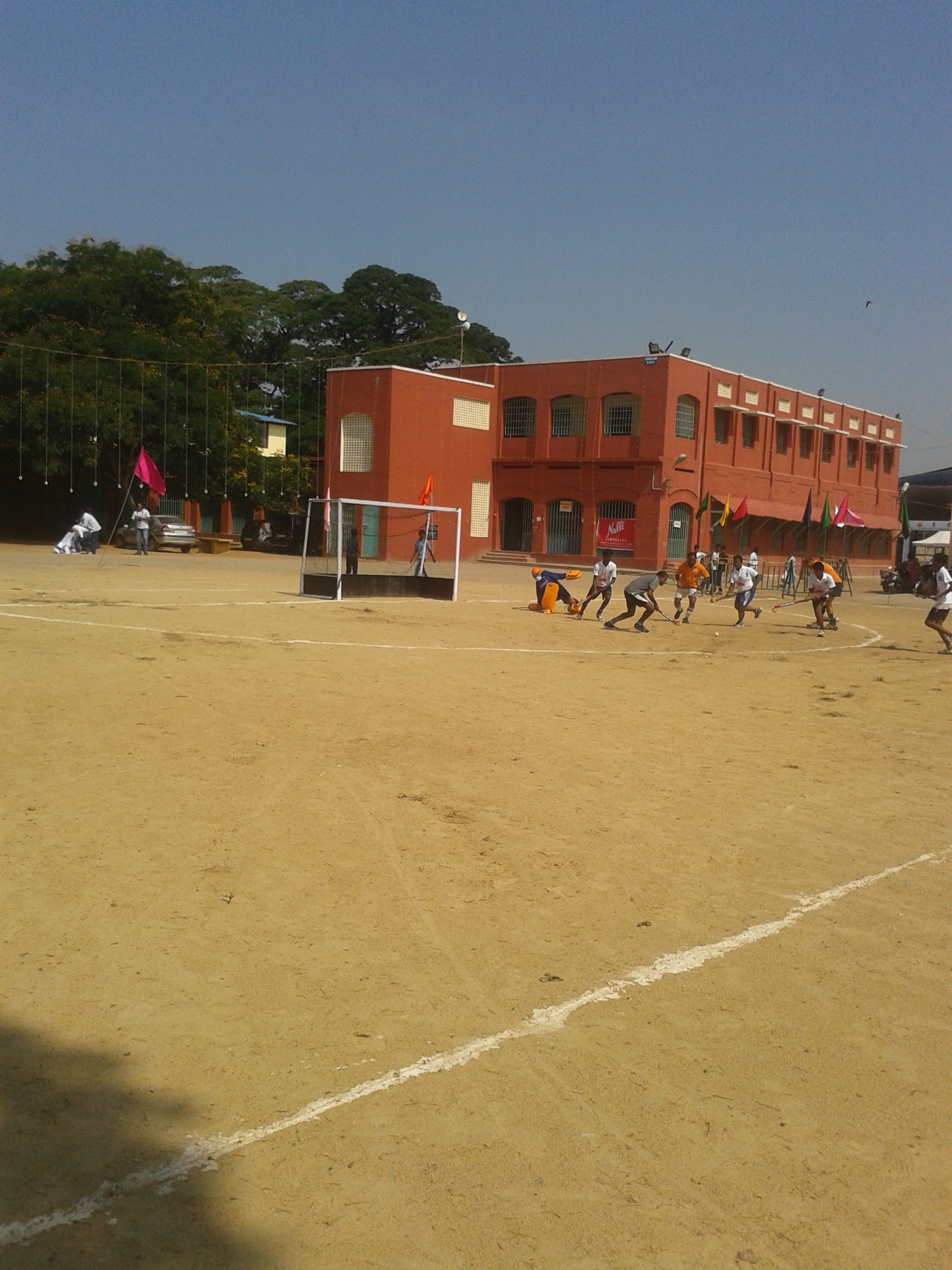 St Georges Hockey tercentenary celebrations